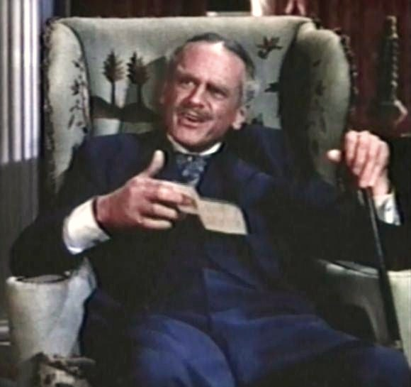 Miles Mander in The Little Princess (cropped screenshot)